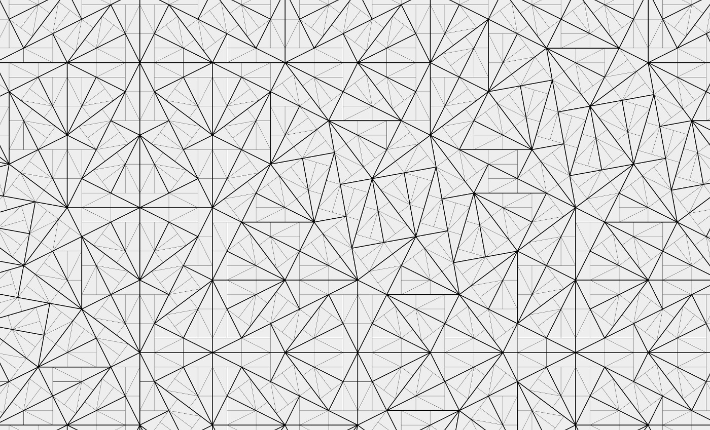 A Pinwheel tiling of the plane (partial view)